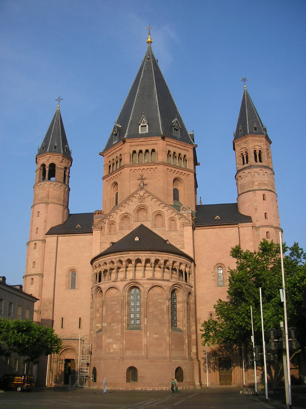 Eastern facade of Mainz cathedral, Liebfrauenplatz. Tower helmet remodelled in 1875 by Pierre Cuypers.